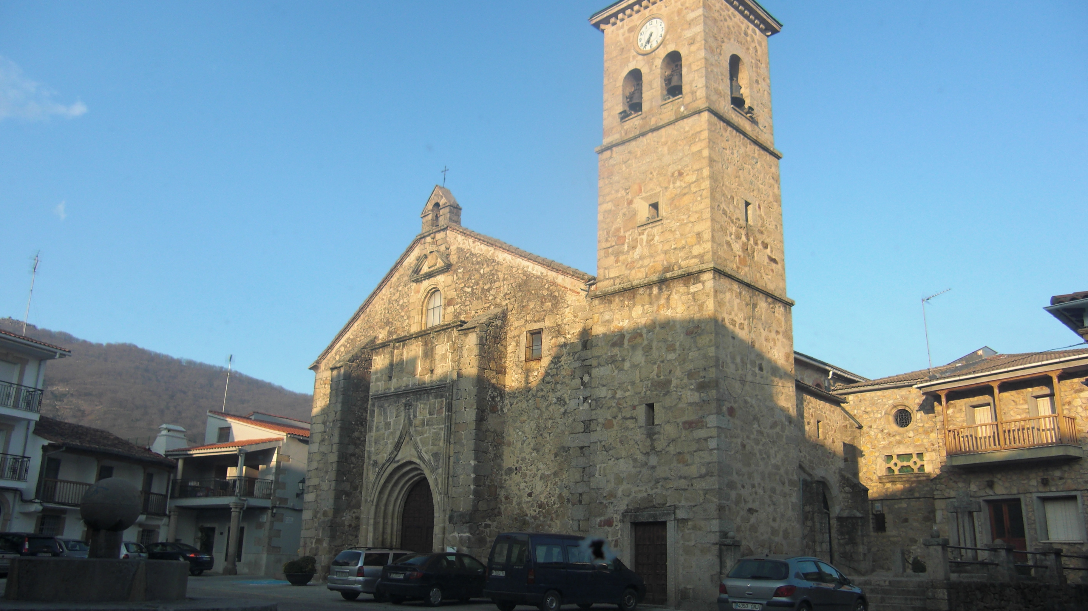 Santiago Apostol church